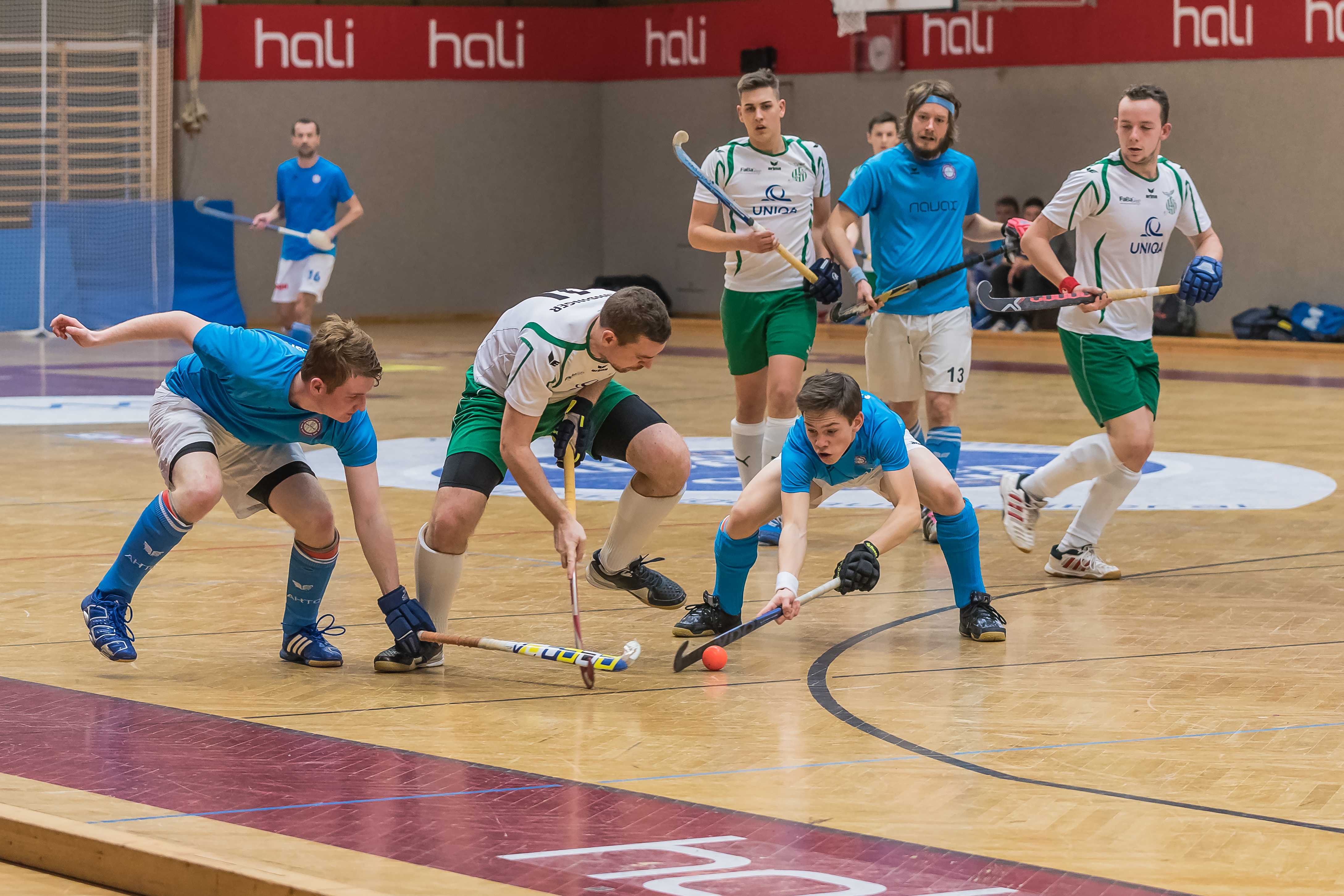 2018 Austrian Indoor Hockey League D; Hockeyclub Wels 2 vs. NAVAX Akademischer Hockey- und Tennisclub Blau-Weiß Vienna; Players from left to right: Winkelbauer (Vienna), Lindinger (Wels), Kaltenböck (Wels), Scholler (Vienna), Brunnbauer(Wels), Binder (Vienna), Pieringer (Wels)